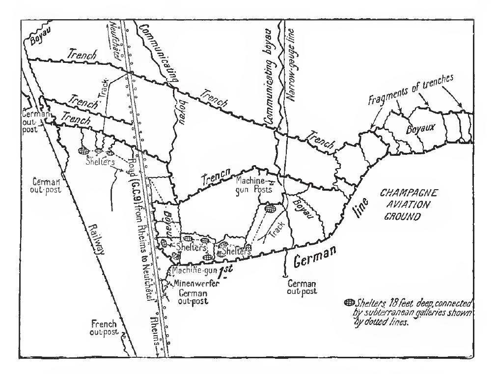 Map Rheims area 1916